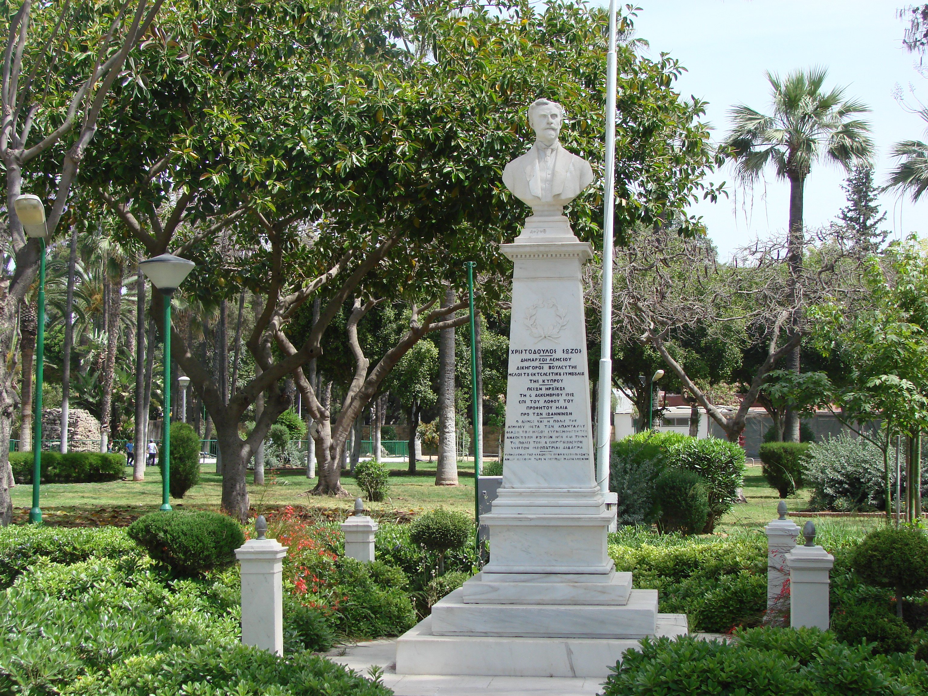 A statue honoring Christodoulos Sozos in the Limassol municipal park.